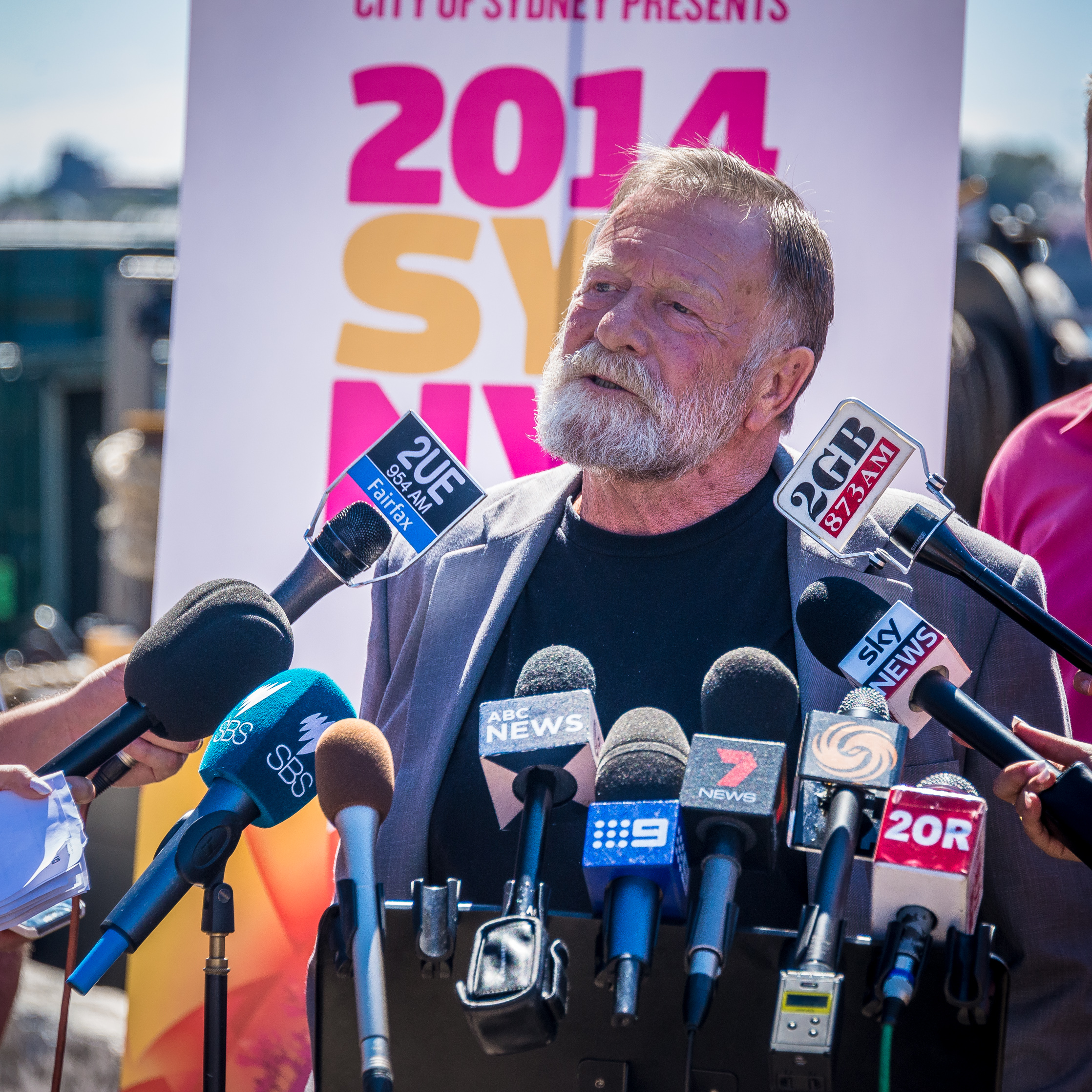 Creative ambassador for the New Year’s Eve Fireworks, veteran actor Jack Thompson speaks at the media briefing on New Years Eve.